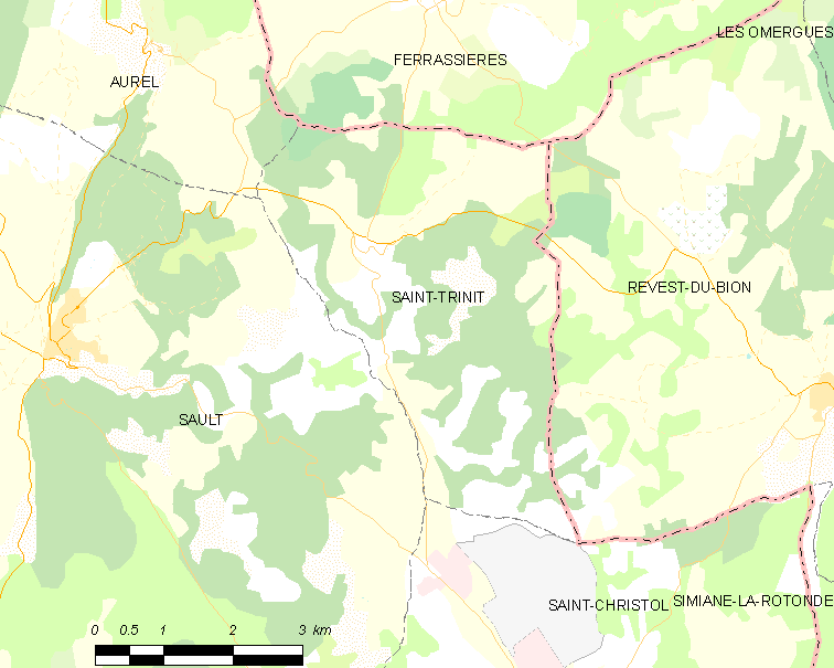 Map of French municipality Saint-Trinit